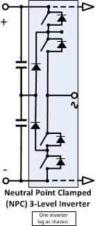 Simplified three-level inverter topology. Adapted from part of a) slide 35 of Paes, Richard (June 2011). "An Overview of Medium Voltage AC Adjustable Speed Drives . . ." & b) Fig. 1.3-2, p. 9 of Wu, Bin (2006) "High-power converters and AC drives"